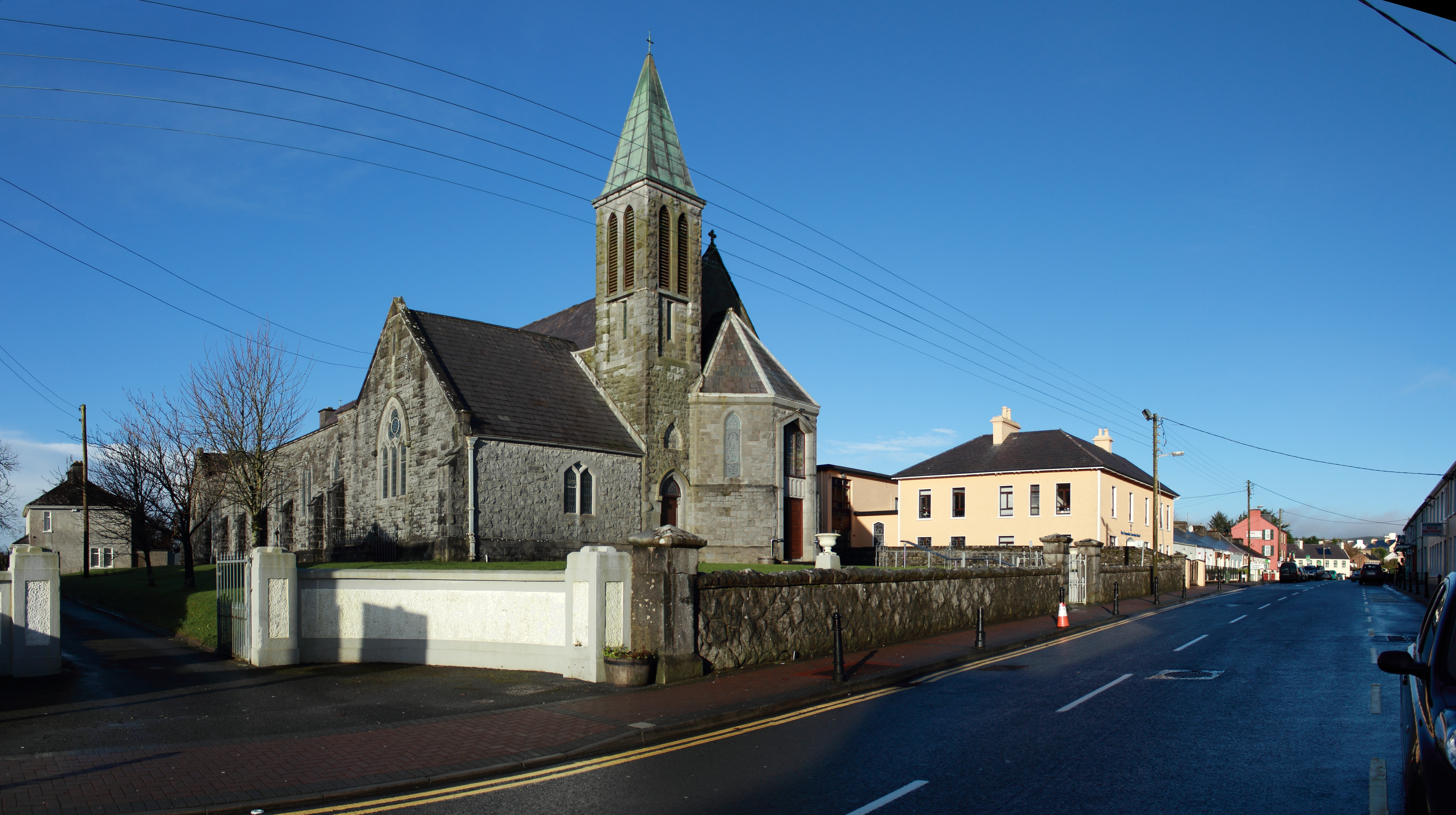 Church and main street of Lisdoonvarna, Clare county, Ireland.